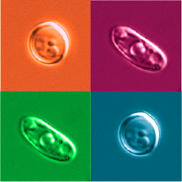 Images of round white-phase and elongated opaque-phase Candida albicans cells. (Differential interference contrast microscopy images, pseudocolored.)